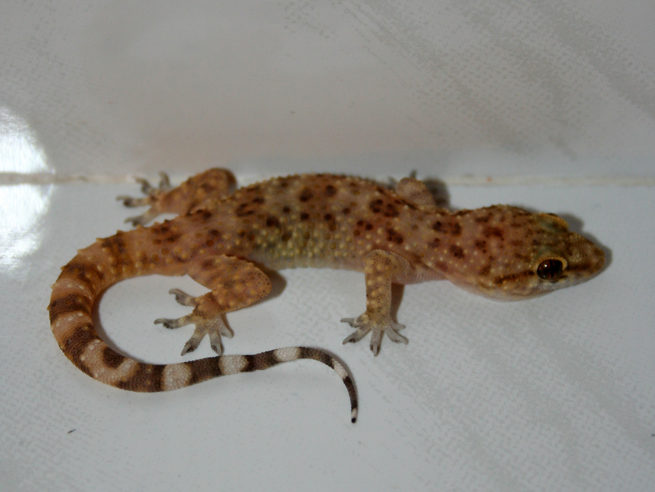 Hemidactylus turcicus, Israel 2010